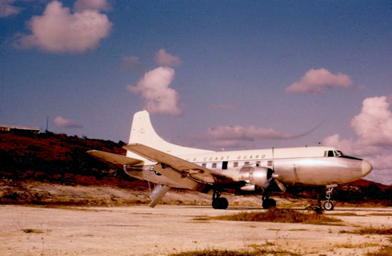 A U.S. Coast Guard Martin 4-0-4 in 1958. Two aircraft were acquired in 1952 and designated RM-1 (USCG serials 1282/1283). They were later upgraded to RM-1Z VIP transports (re-designated VC-3A in 1962). Both were stationed at the Washington National Airport and used by the Commandant of the USCG and the Secretary of Treasury/Transportation. Both were turned over to the U.S. Navy in 1969 (BuNos 158202/158203) and used until 1971. Both were sold to civil operators. 1282 crashed in Venezela in 1978, 1283 was written off in 1974.